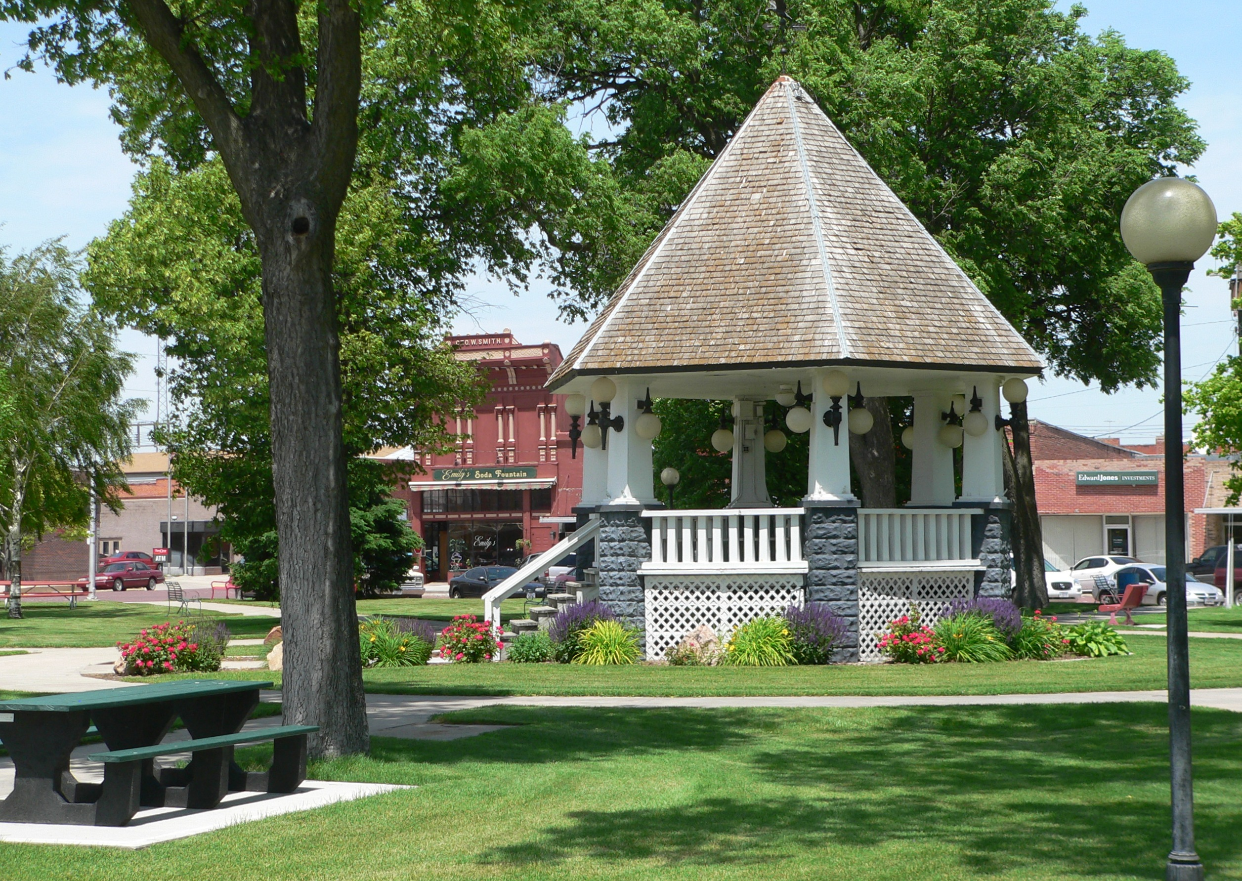 Bandstand in public square in downtown Broken Bow, Nebraska; seen from the east. Visible in the background is the 800 block of South D Street; the building behind and immediately to the left of the bandstand is Emily's Soda Fountain, at 845 S. D. The bandstand was constructed in 1916; it is part of the Broken Bow Commercial Square Historic District, which is listed in the National Register of Historic Places.